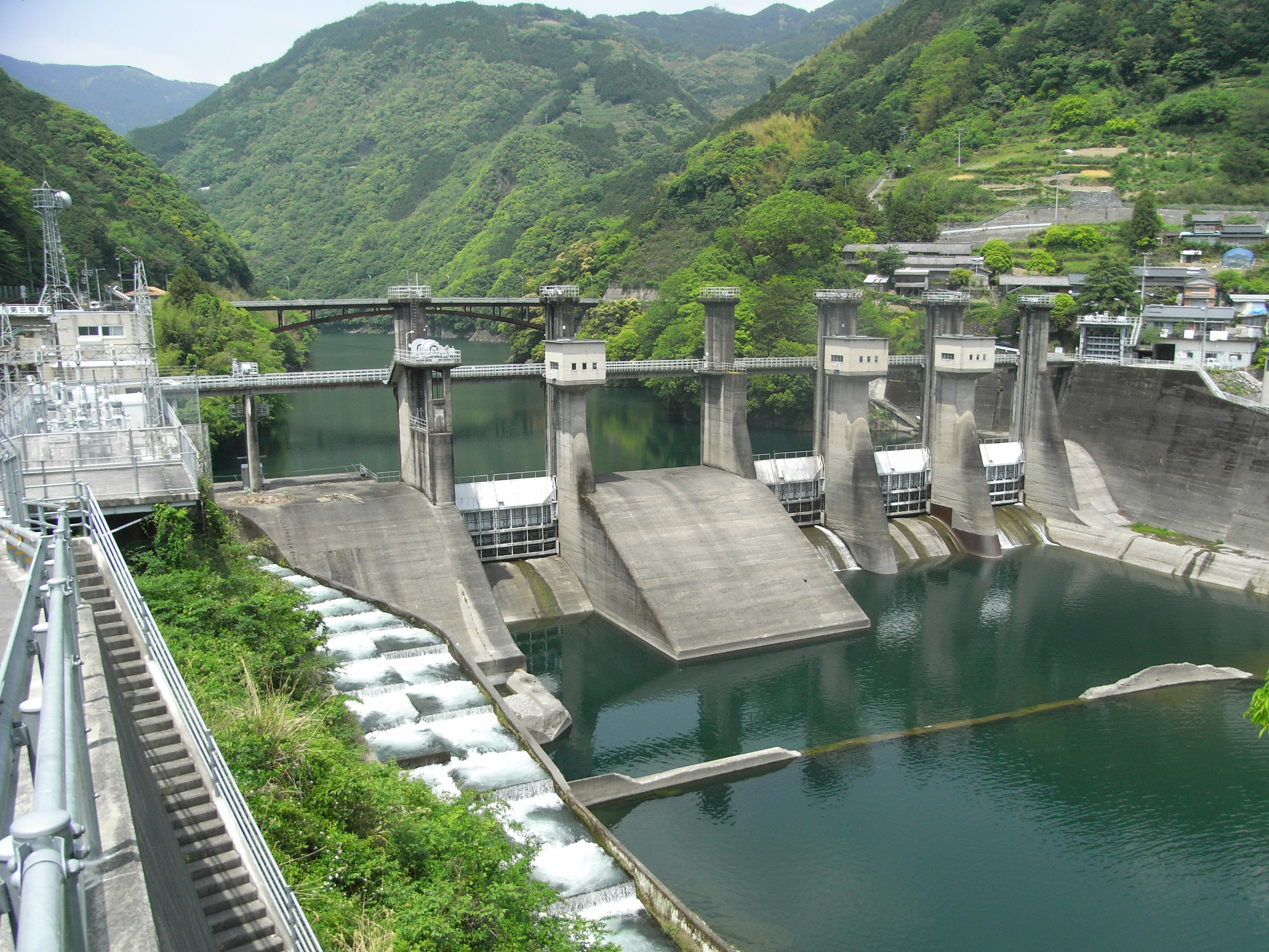 Ikadatsu Dam(Niyodogawa river/Kochi Pref./Japan)